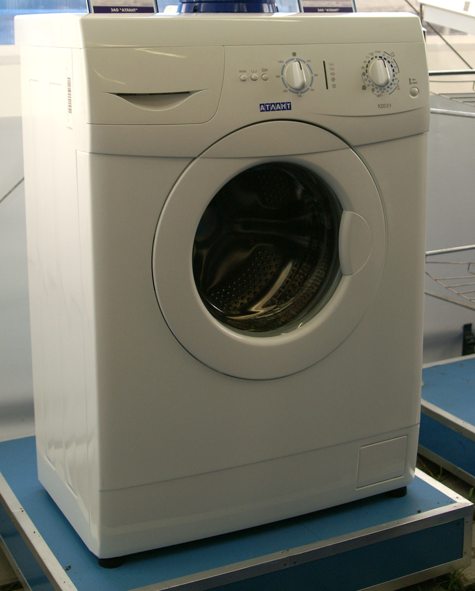 Atlant washing mashine (Minsk)